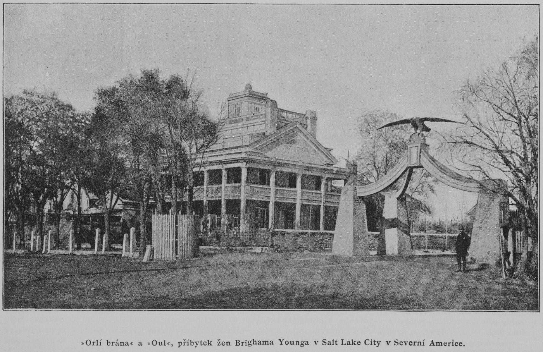 Eagle Gate and Beehive House in Salt Lake City, Utah, US. An illustration of Czech-language article V městě »Svatých soudného dne« (In the city of Latter-day Saints) by Pavel Albieri (1861 - 1901)